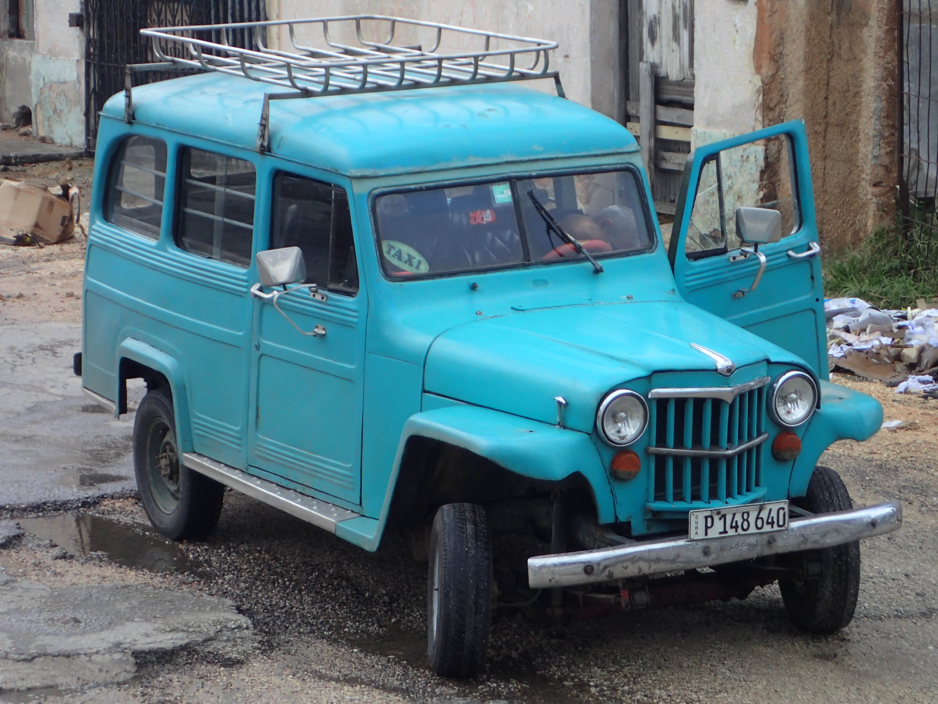 Willys Jeep Station Wagon taxi, Matanzas, Cuba 2016.